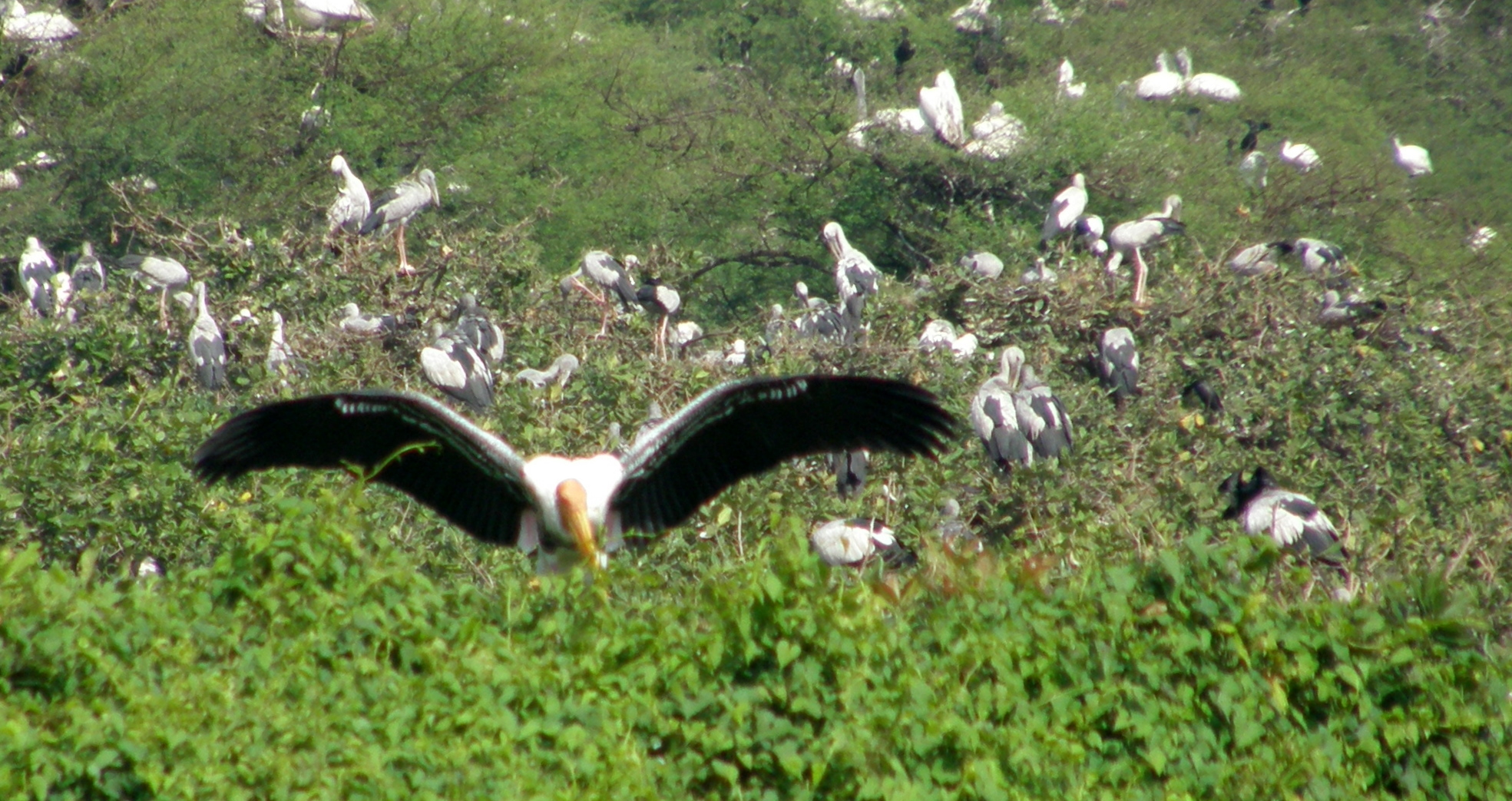 Vedanthangal Bird Sanctuary in Tamil Nadu